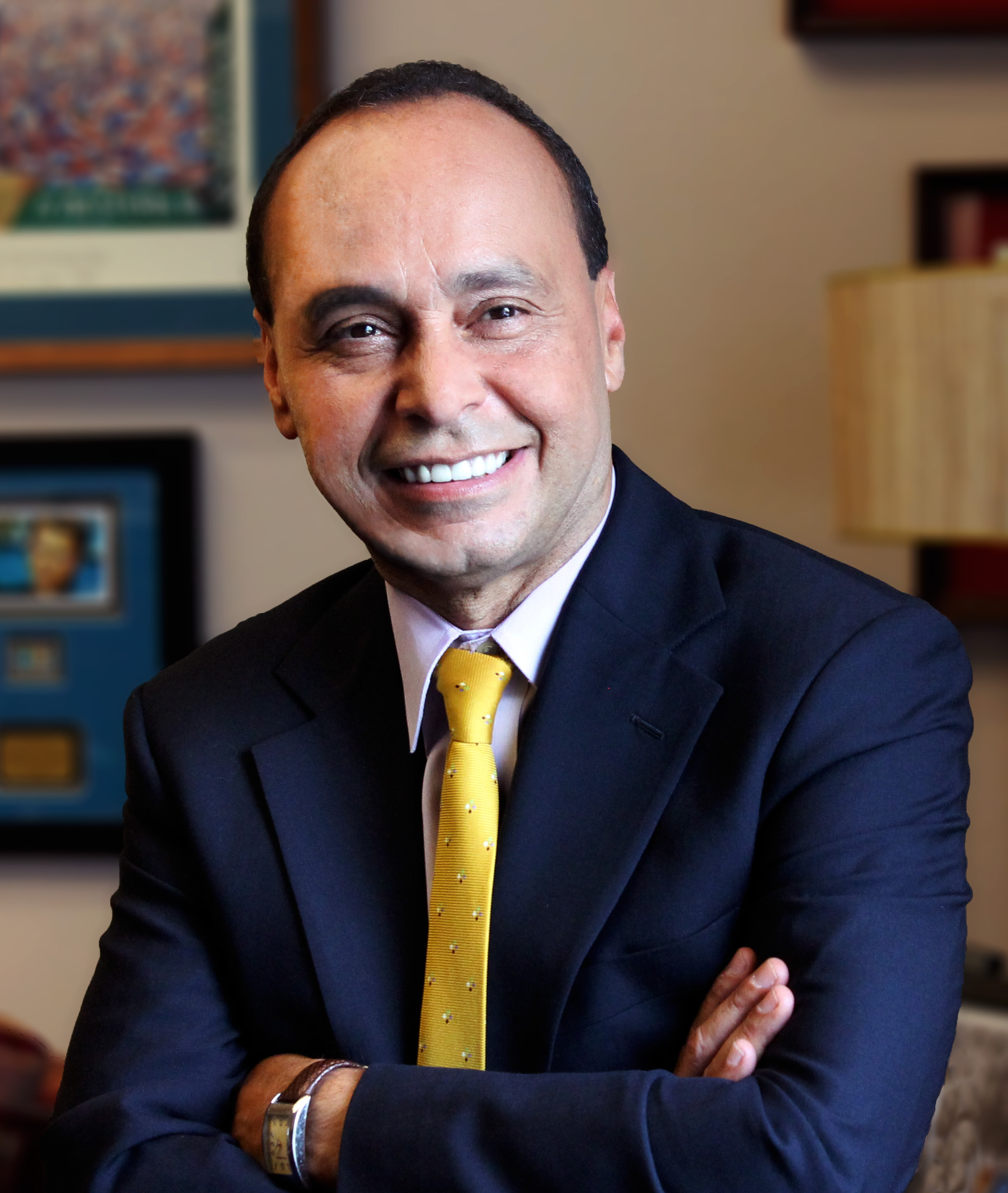 Luis V. Gutierrez, Member of Congress for the Fourth Congressional District of Illinois, official photo portrait